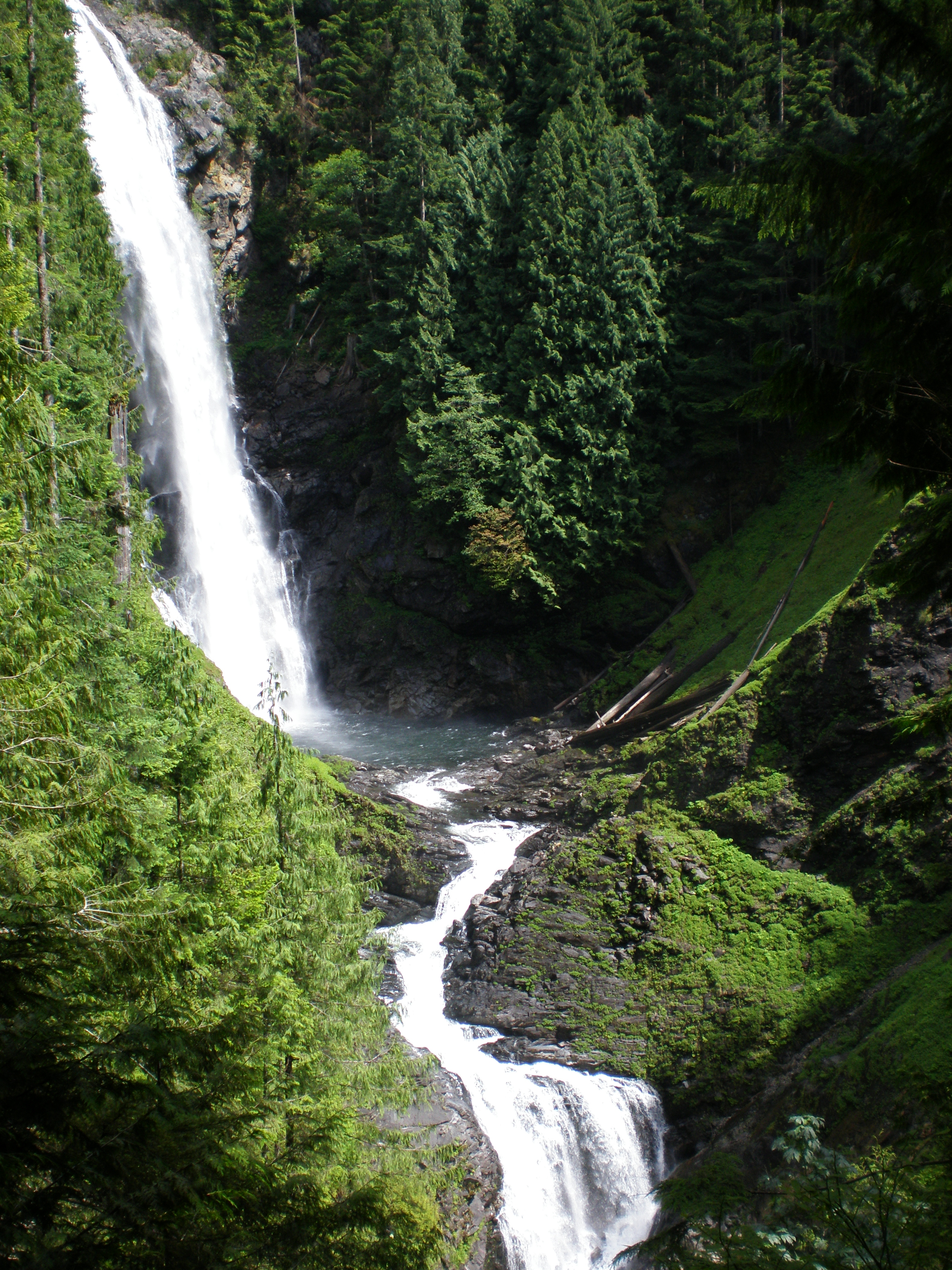 July 7, 2007. View of the Wallace Falls, Middle Falls, at Wallace Falls State Park near Gold Bar, WA.